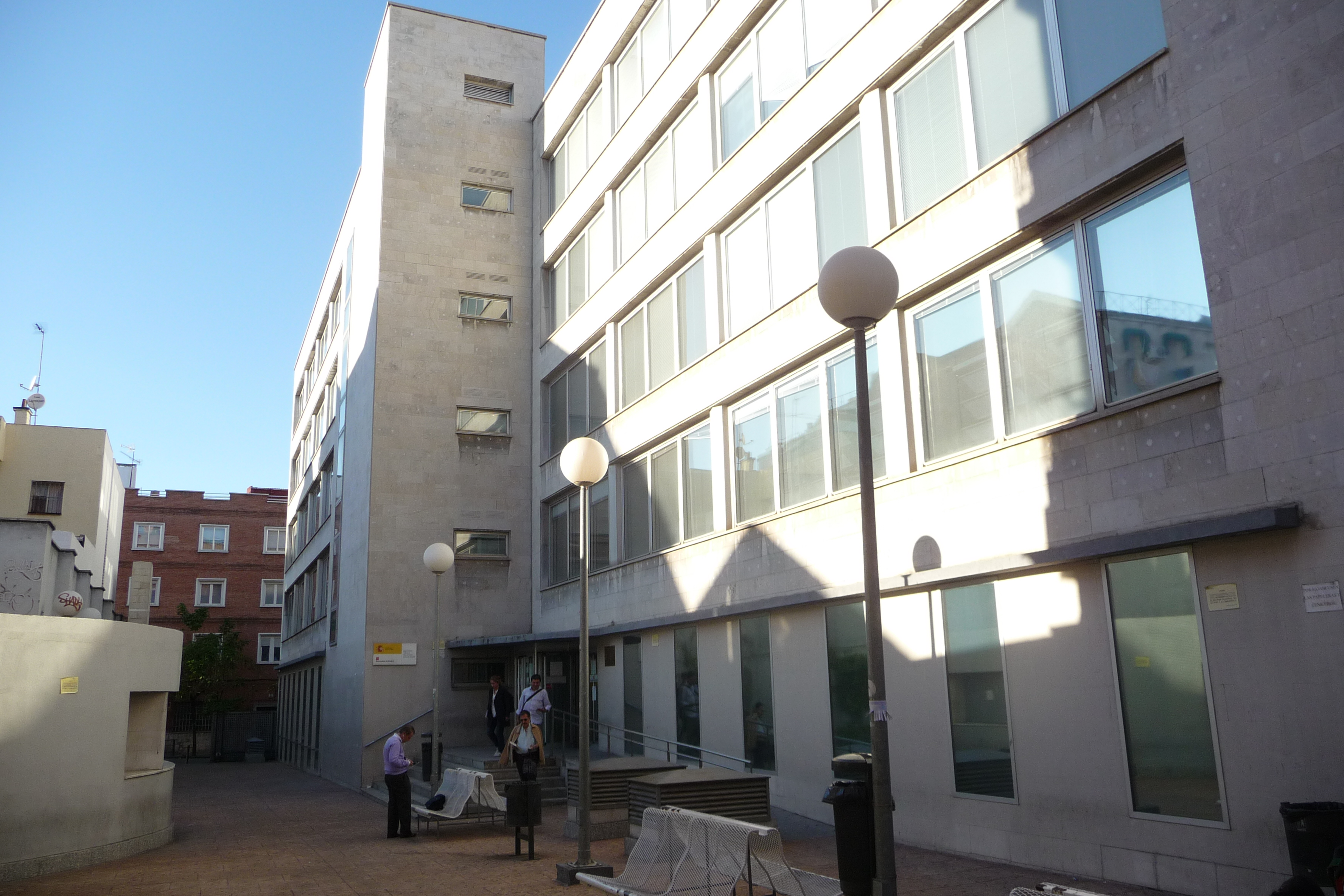 This is the Manuel Alvar Library, the State Public Library in Madrid, part of the Cultural Interest Registry more for its content than the building